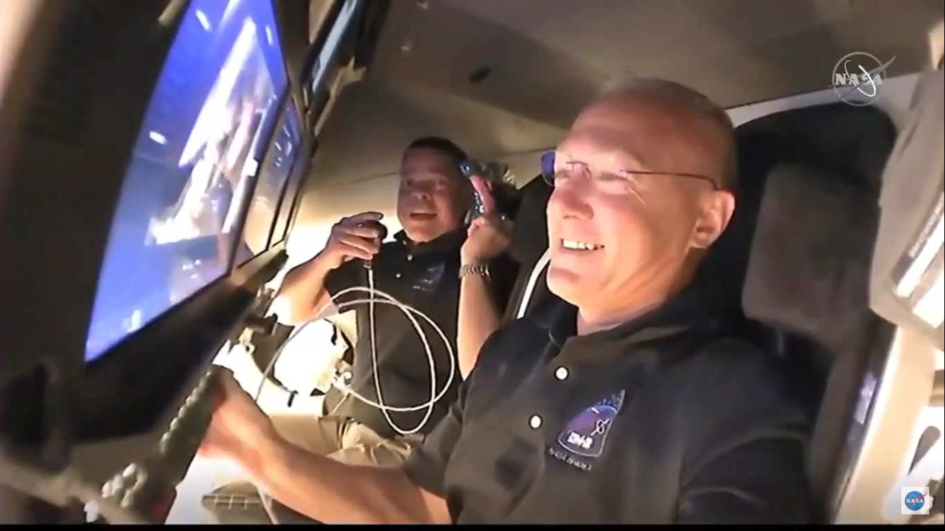 During a brief transmission on the YouTube Channel of NASA, astronauts Douglas G. Hurley and Robert L. Behnken explained about Trimmer, a dinosaur from their children.